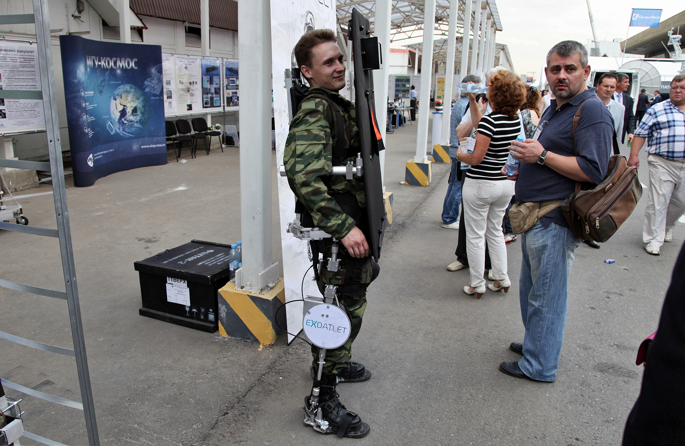 Passive exoskeleton ExoAtlet P-1.